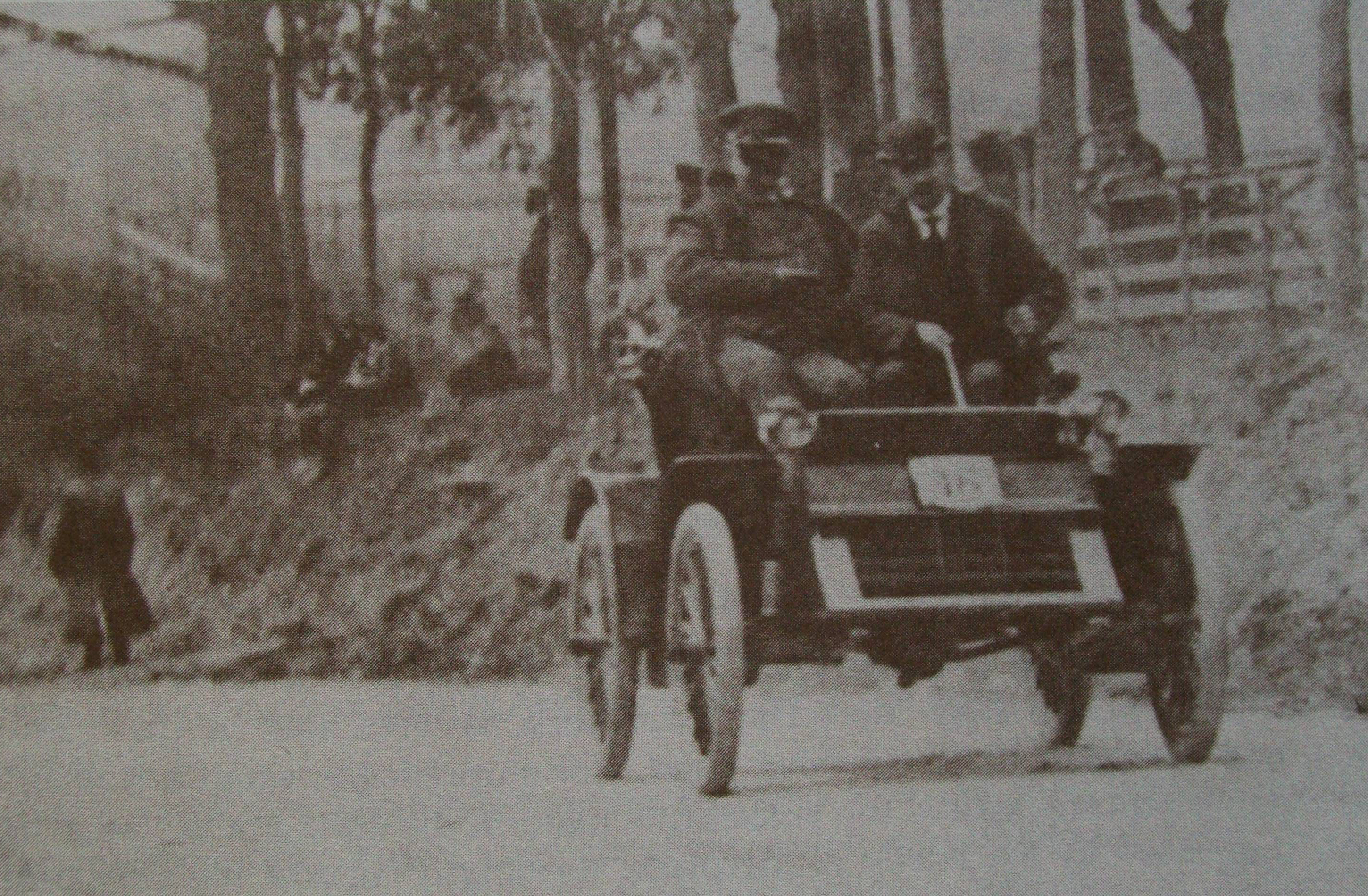 Elwood Haynes driving his car in the April 1902 Long Island Non-stop contest.